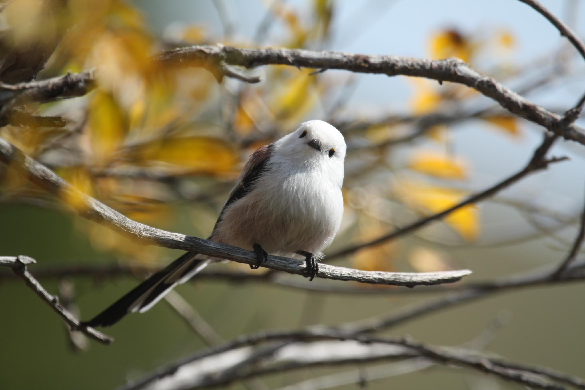 A Long-tailed Tit Aegithalos caudatus caudatus in Mongolia.